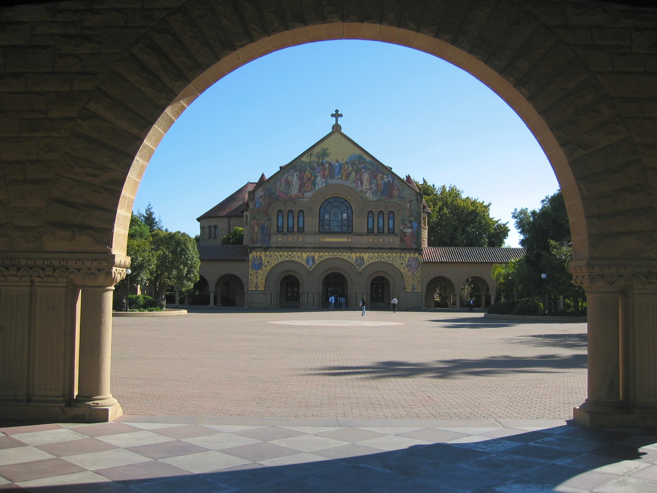 Stanford University Memorial Church.